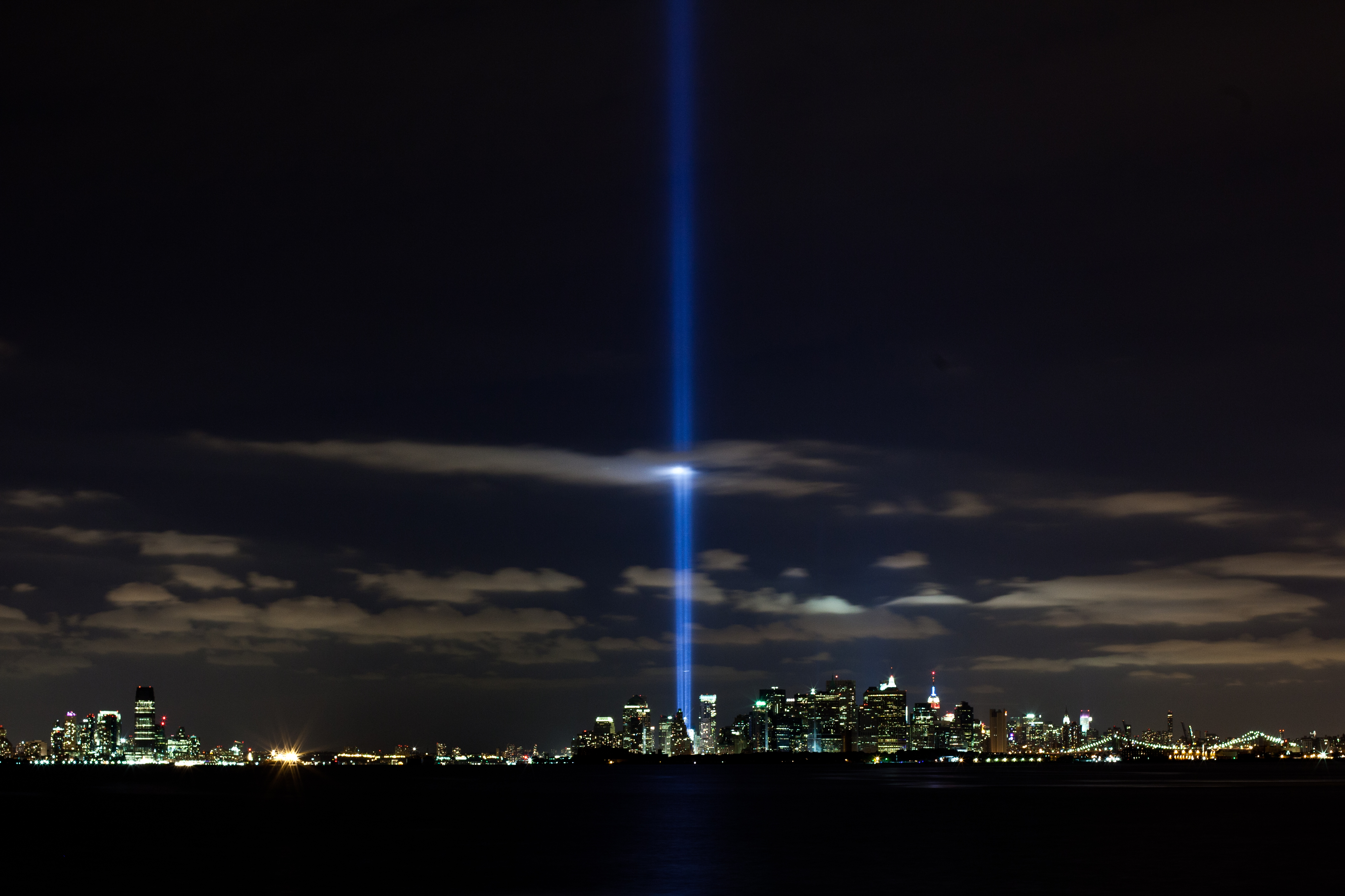 A light display shines from where the World Trade Center used to be, New York, Sept. 11. The two beams of light are illuminated each year on the anniversary of the 9/11 attacks. (Official Marine Corps photo by Sgt. Randall A. Clinton)